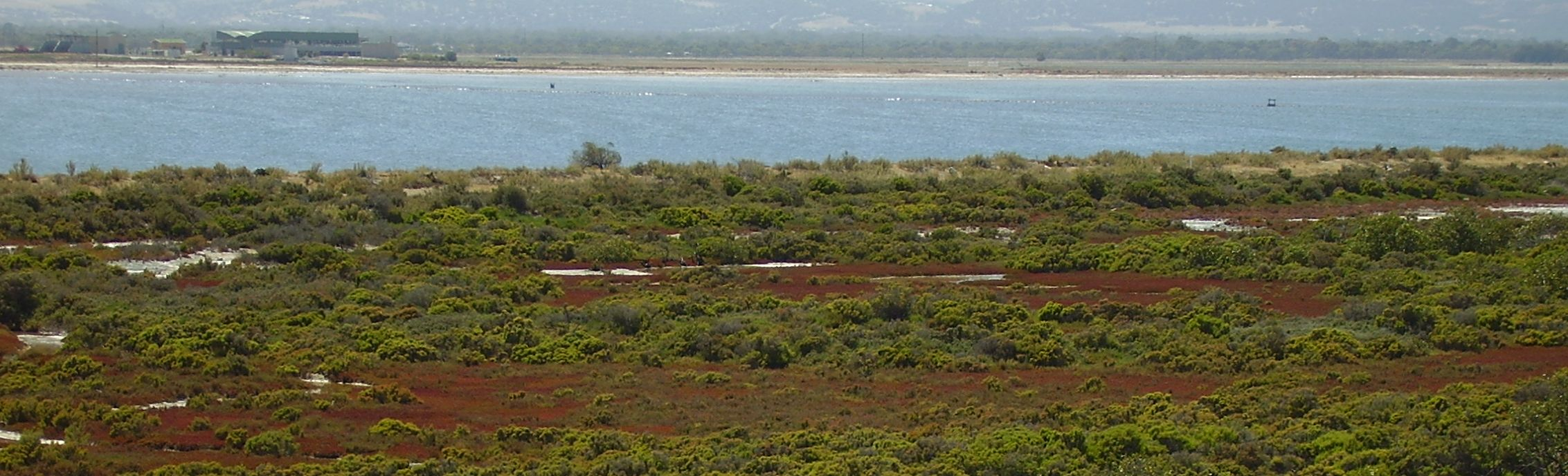 Salt concentration lagoon at St Kilda, South Australia. Photo taken from the interpretative centre tower on the Mangrove boardwalk. In the foreground is samphire saltmarsh.